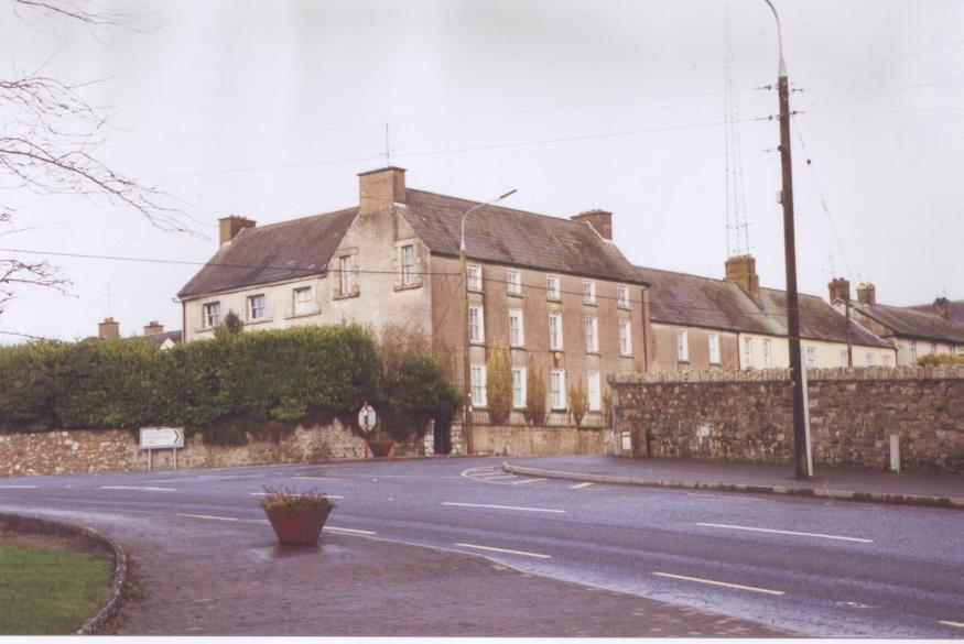 Photo by R. de Salis, February 2002.Rodolph 12:46, 31 January 2007 (UTC)